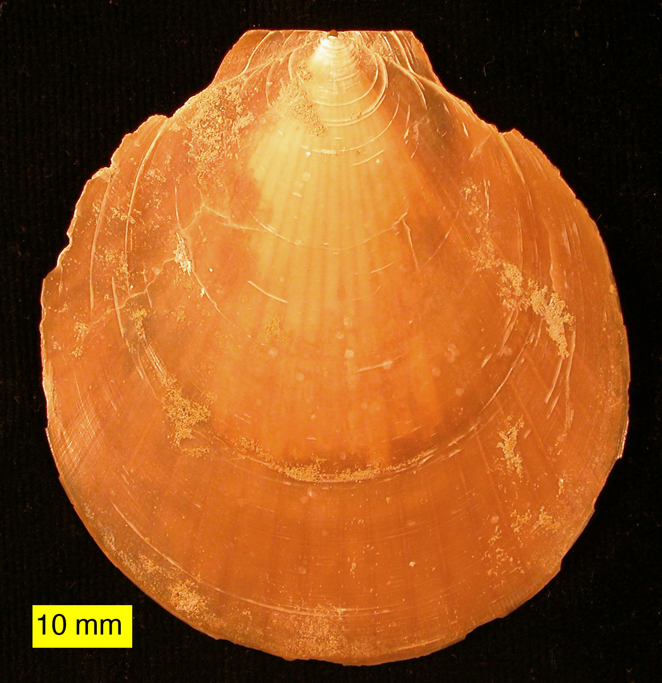 Amusium cristatum from the Pliocene of Cyprus.